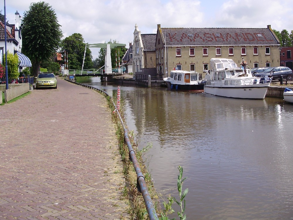 The Boalserter Feart in Wommels in the municipality of Súdwest-Fryslân, the NetherlandsFrysk: De Boalserter Feart in Wommels yn de gemeente Súdwest-Fryslân